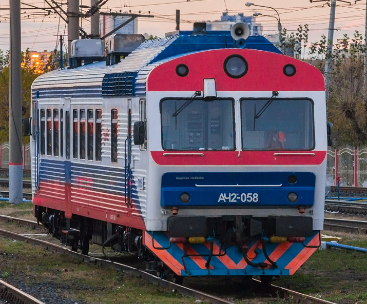 Diesel railcar ACh2m-058 ar Kazan railway station, Tatarstan, Russia